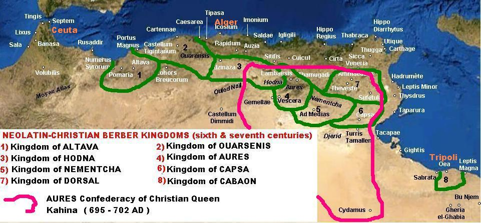 Map of the Romano-moorish kingdoms during the late Roman empire. Original map from Wikipedia: File:Africae romanae urbes.jpg (I have added data and graph lines for the borders)